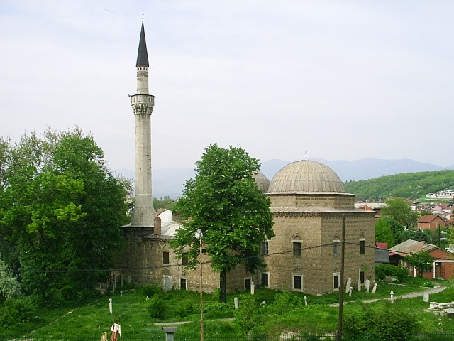 Skopje, capital of the Republic of Macedonia